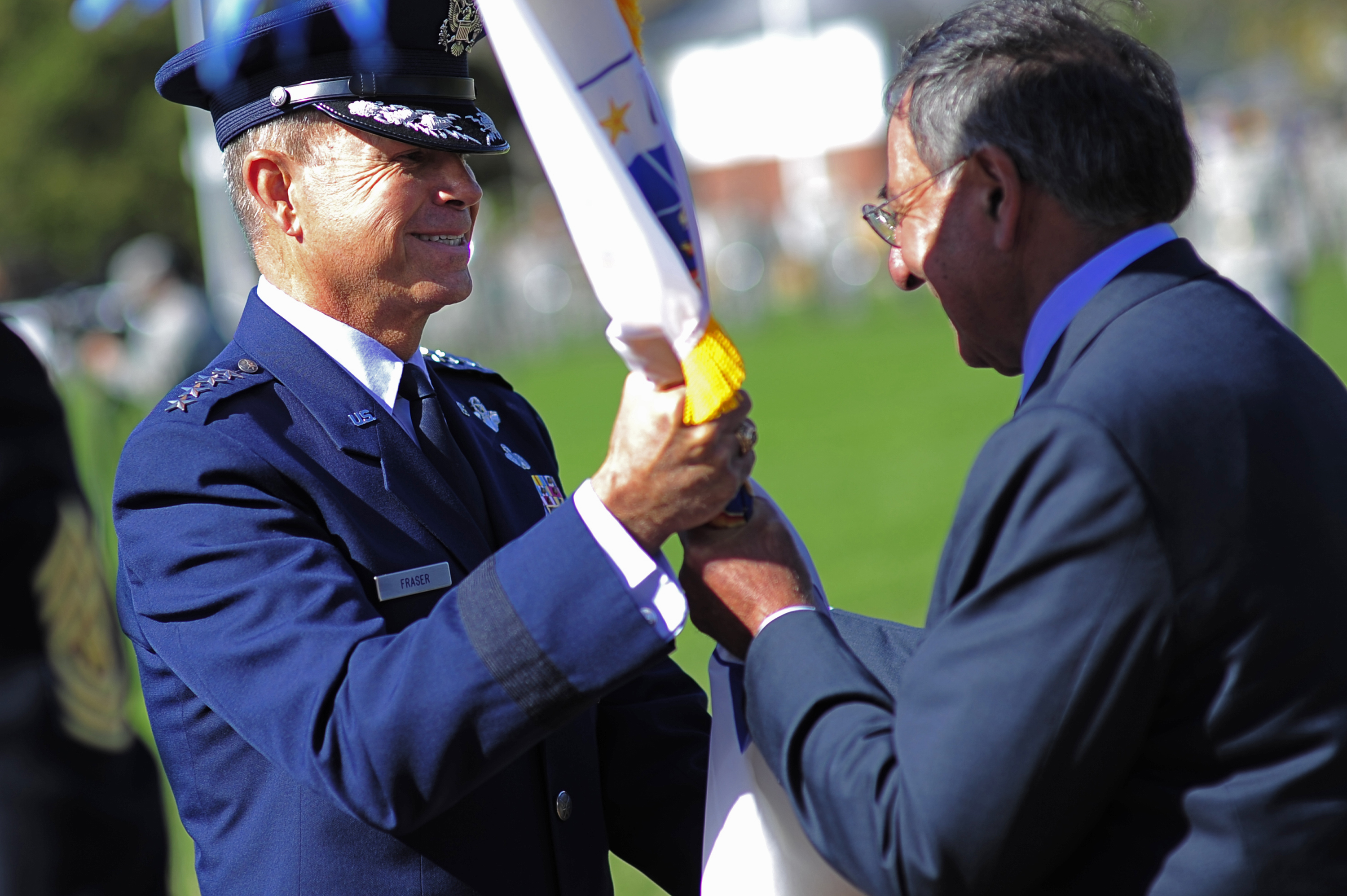 Secretary of Defense Leon E. Panetta, right, hands the U.S. Transportation Command flag to Air Force Gen. William M. Fraser III after Fraser assumed leadership of the command from Gen. Duncan J. McNabb during a change of command ceremony at Scott Air Force Base, Ill., Oct. 14, 2011.